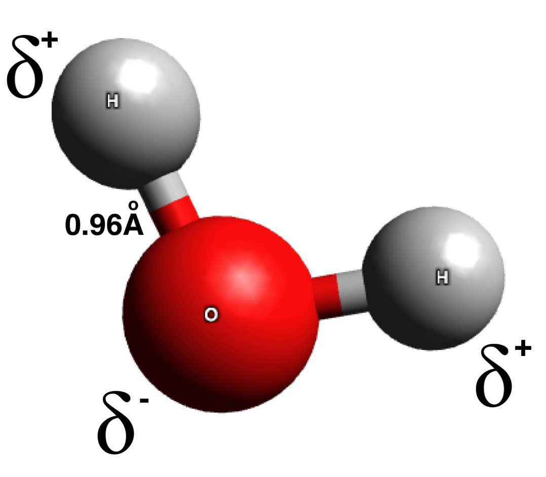 This is a ball and stick model of a water molecule. It has a permanent dipole pointing to the bottom left hand side.